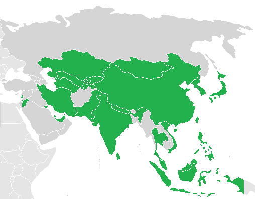 A map of the 2017 Asian Winter Games Participating Nations